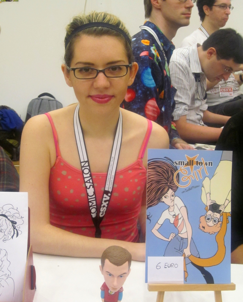 Isabell Ristow at the Comic Salon Erlangen 2012